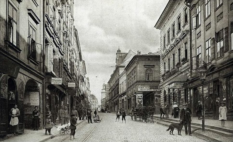 Teschen between 1917 and 1918. Cieszyn Silesia, Austrian-Silesia, Austria–Hungary.